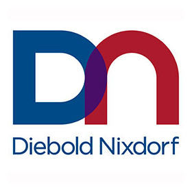 Diebold Nixdorf logo 2018